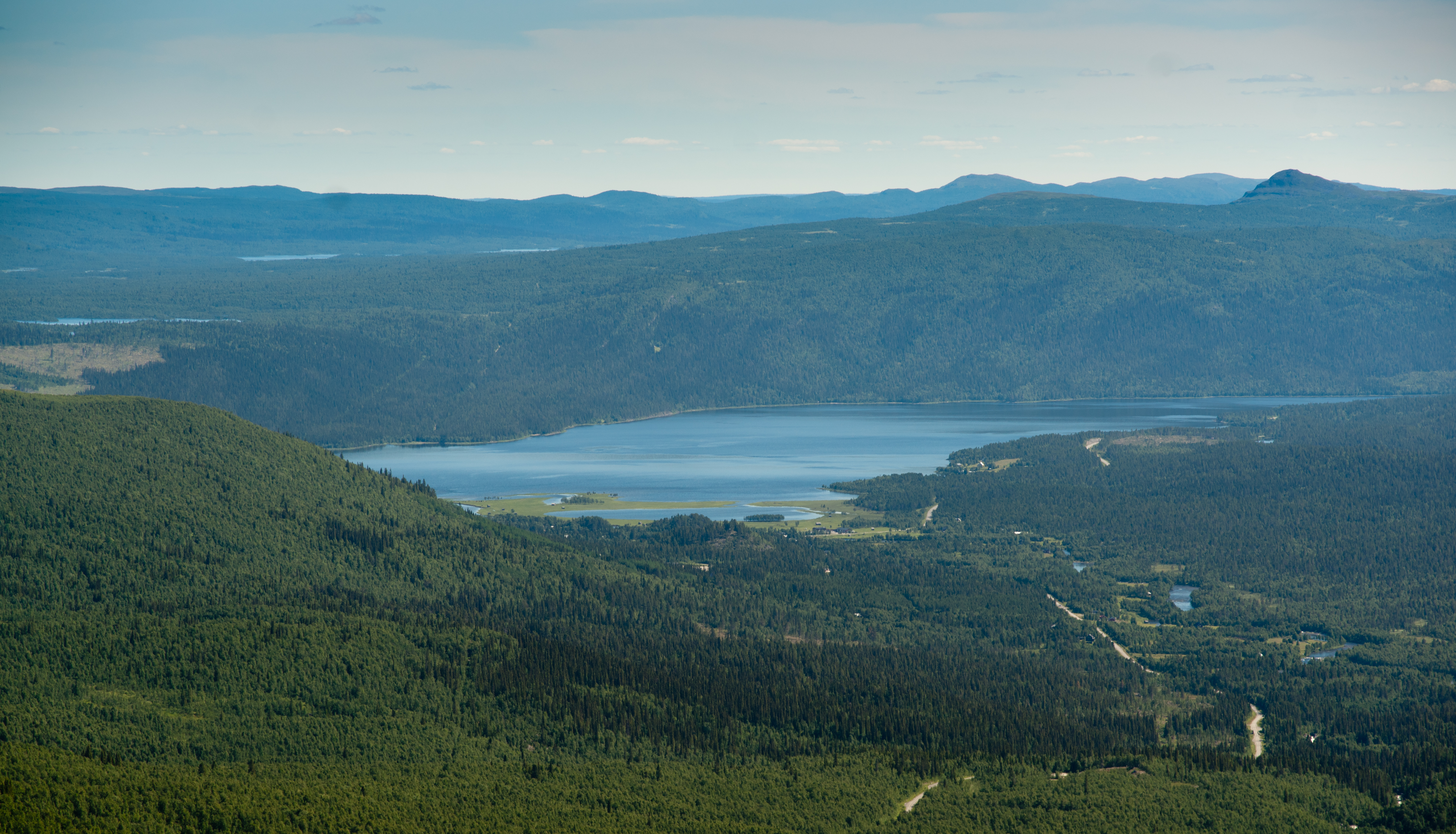 Gautsträsk, Vindelfjällens naturreservat, Sweden.